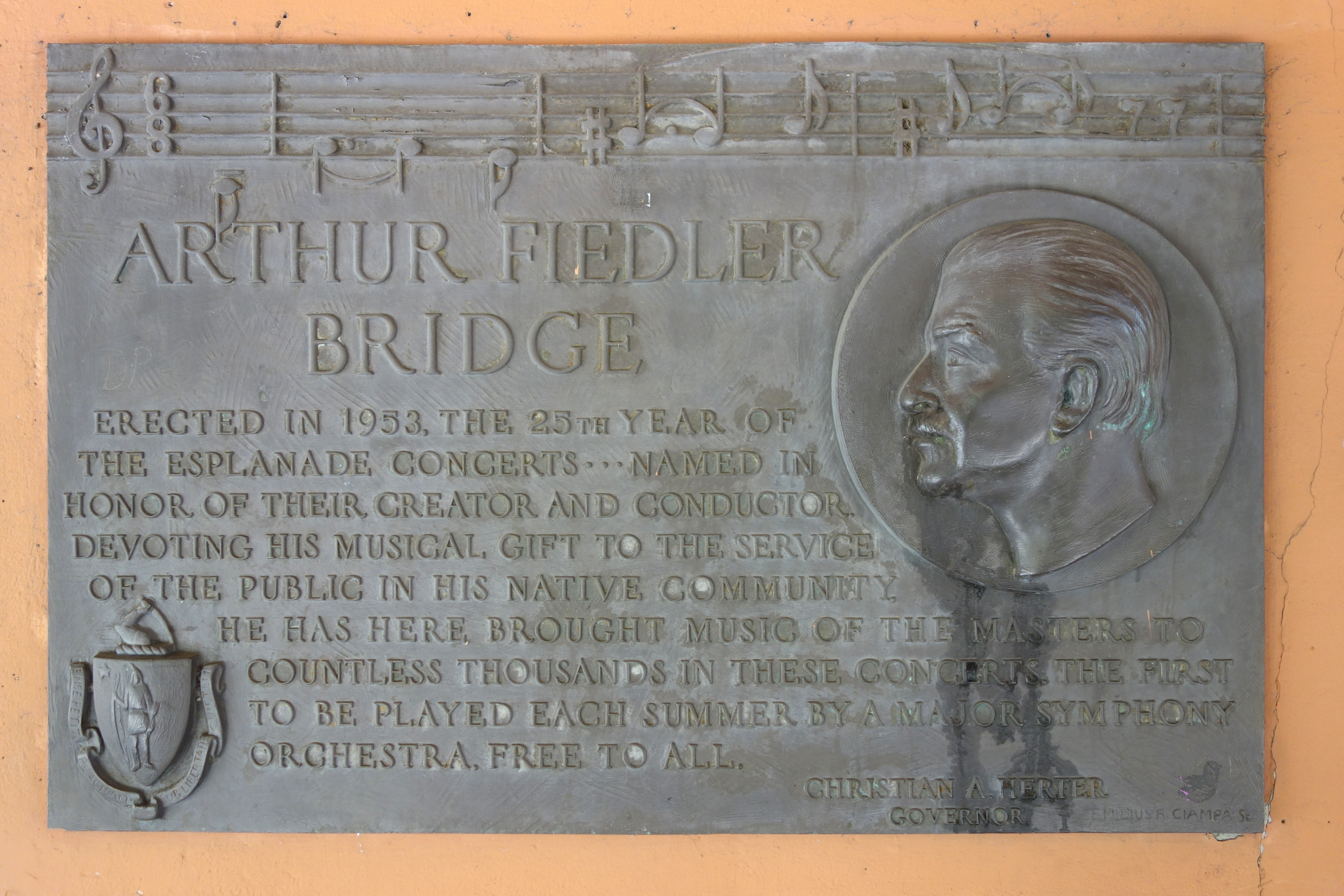 Arthur Fiedler Bridge plaque - Charles River Esplanade - Boston, Massachusetts, USA. This plaque was created in 1953. It is now in the public domain because it was published in the United States between 1923 and 1963, with its copyright not renewed.